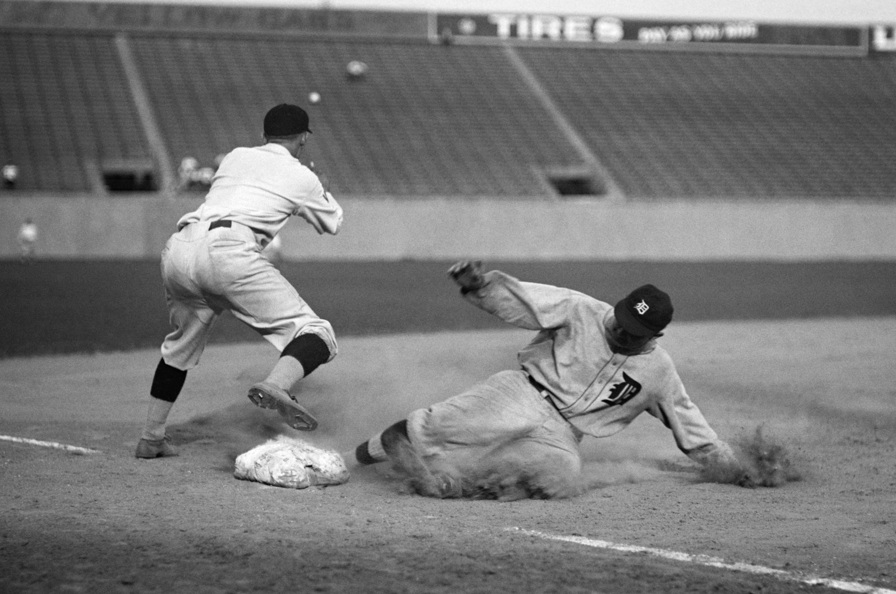 Ty Cobb safe at third after making a triple, 8/16/[19]24. Detroit Tigers at Washington Senators. The defensive player is likely Ossie Bluege, who was the third baseman for the Senators that day. 1 negative : glass ; 4 x 5 in. or smaller. This is a cropped version of File:Ty Cobb sliding2.jpg